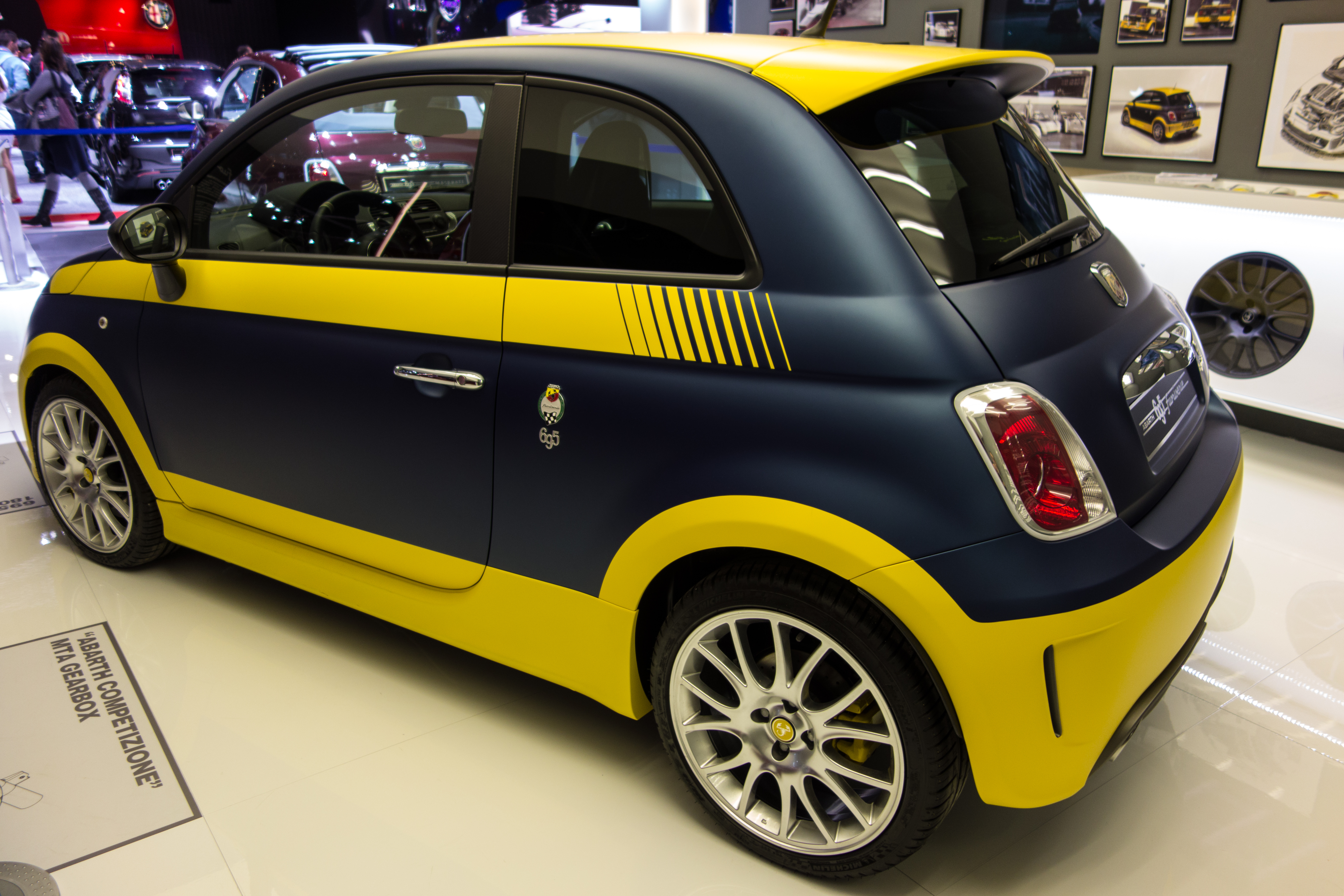 Mondial De L'automobile Paris 2012 | Paris Motor Show 2012